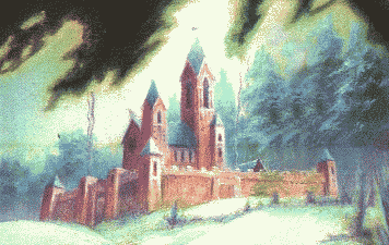 Redwall abbey